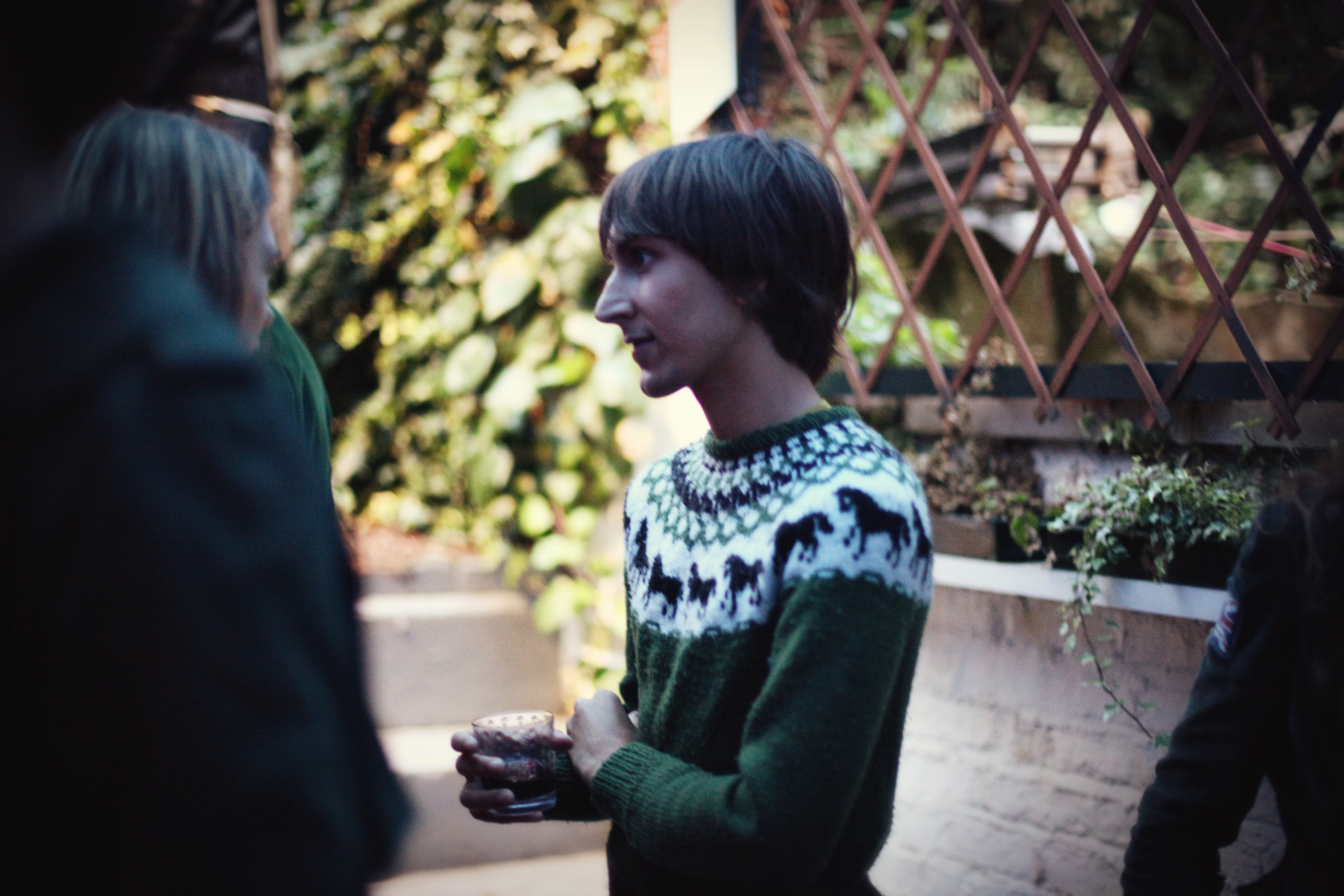 Alex Somers at the Riceboy Sleeps launch